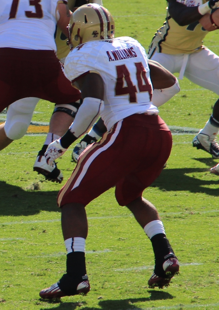 Boston College running back Andre Williams, 2012